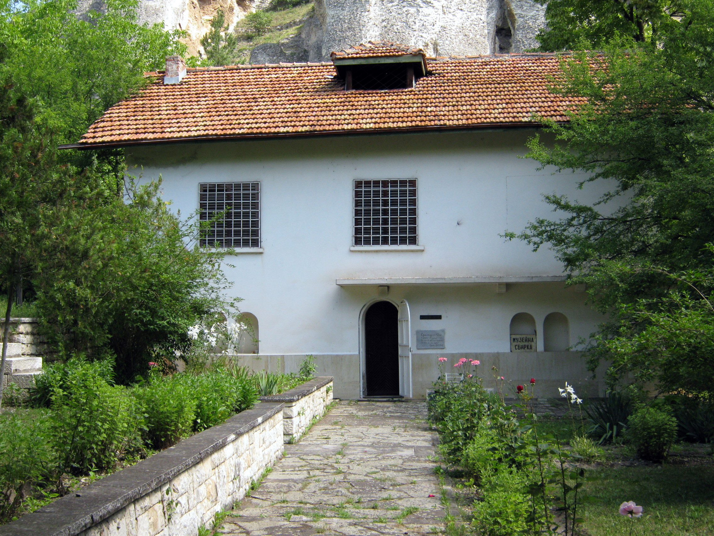 The History Museum in Kunino, Bulgaria in the birth house of Acad. Sava Ganovski, donated to the village.